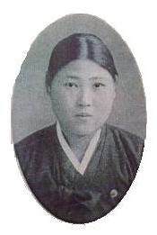 Lee Soon Keum, Korean Independent activists